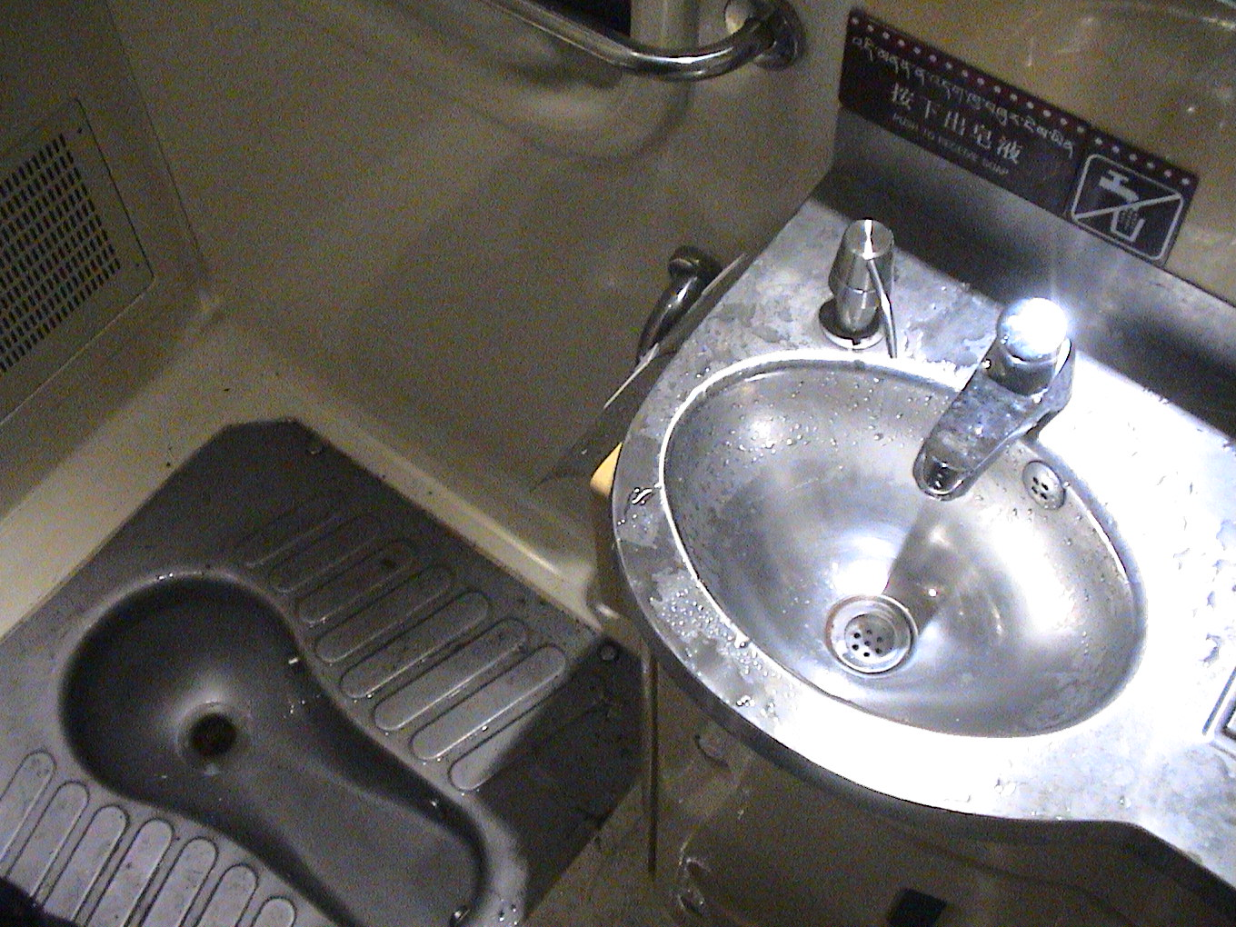 A stainless steel squat toilet in the passenger car with seats in the train of the Qinghai-Tibet Railway (China)